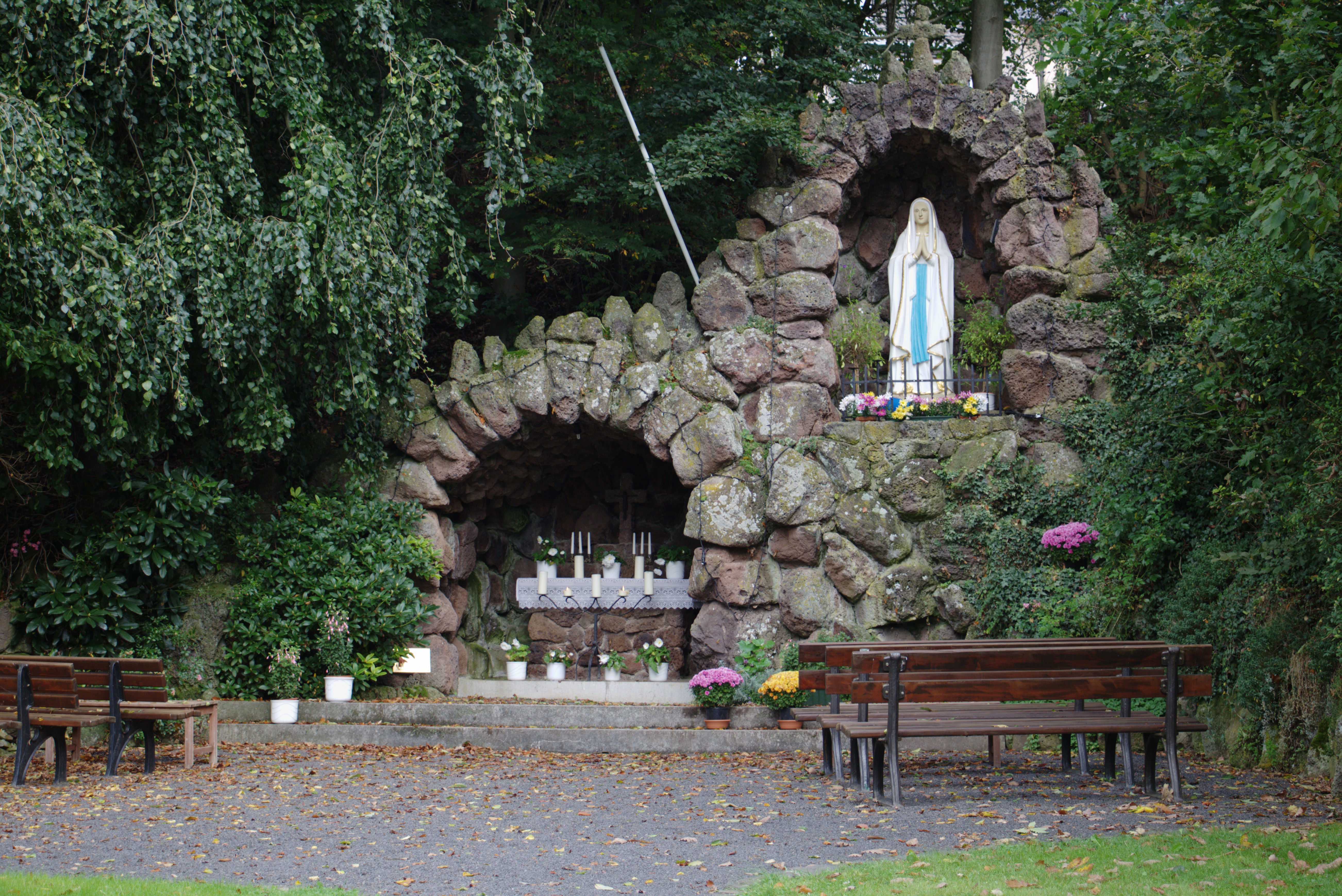 Lourdes Grotto in Oberrode, Fulda, Hessen, Germany